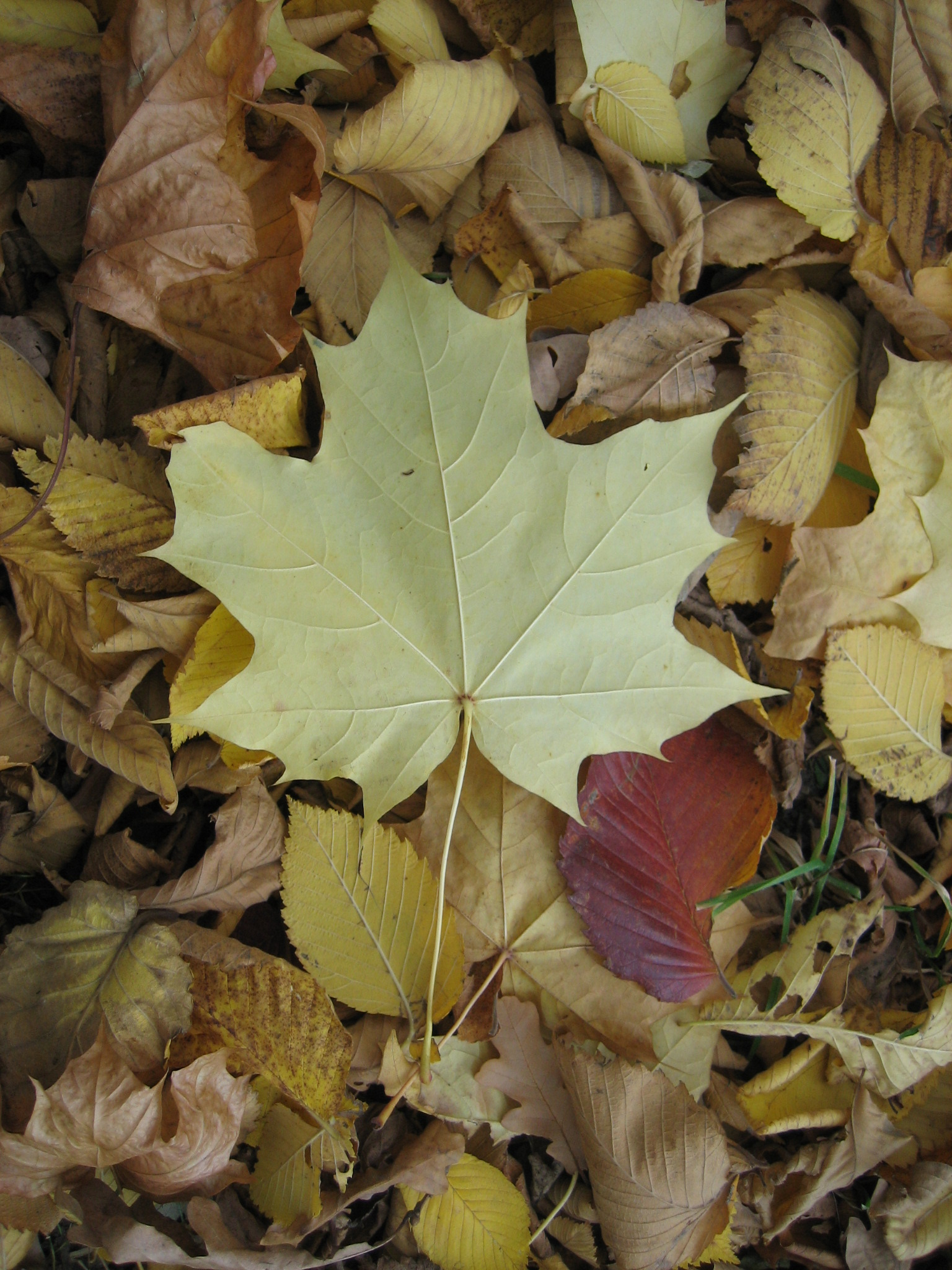 Norway Maple Acer platanoides Leaf. Taken by Ruslan V. Sushko on October 2005